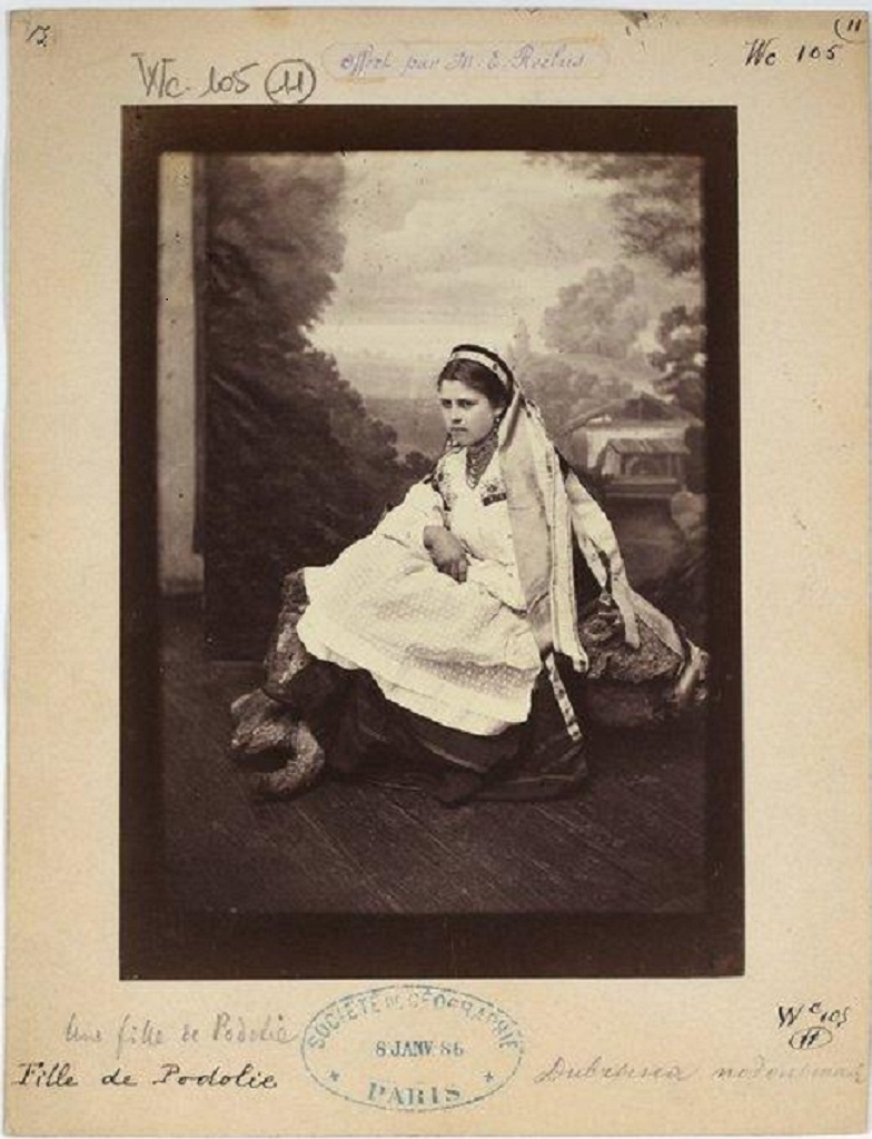 Podolia. Ukraine